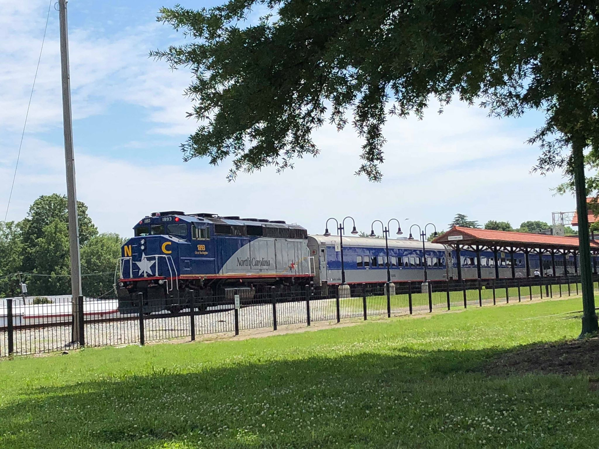 Amtrak provides four daily, round-trip passenger rail services between Raleigh and Charlotte.